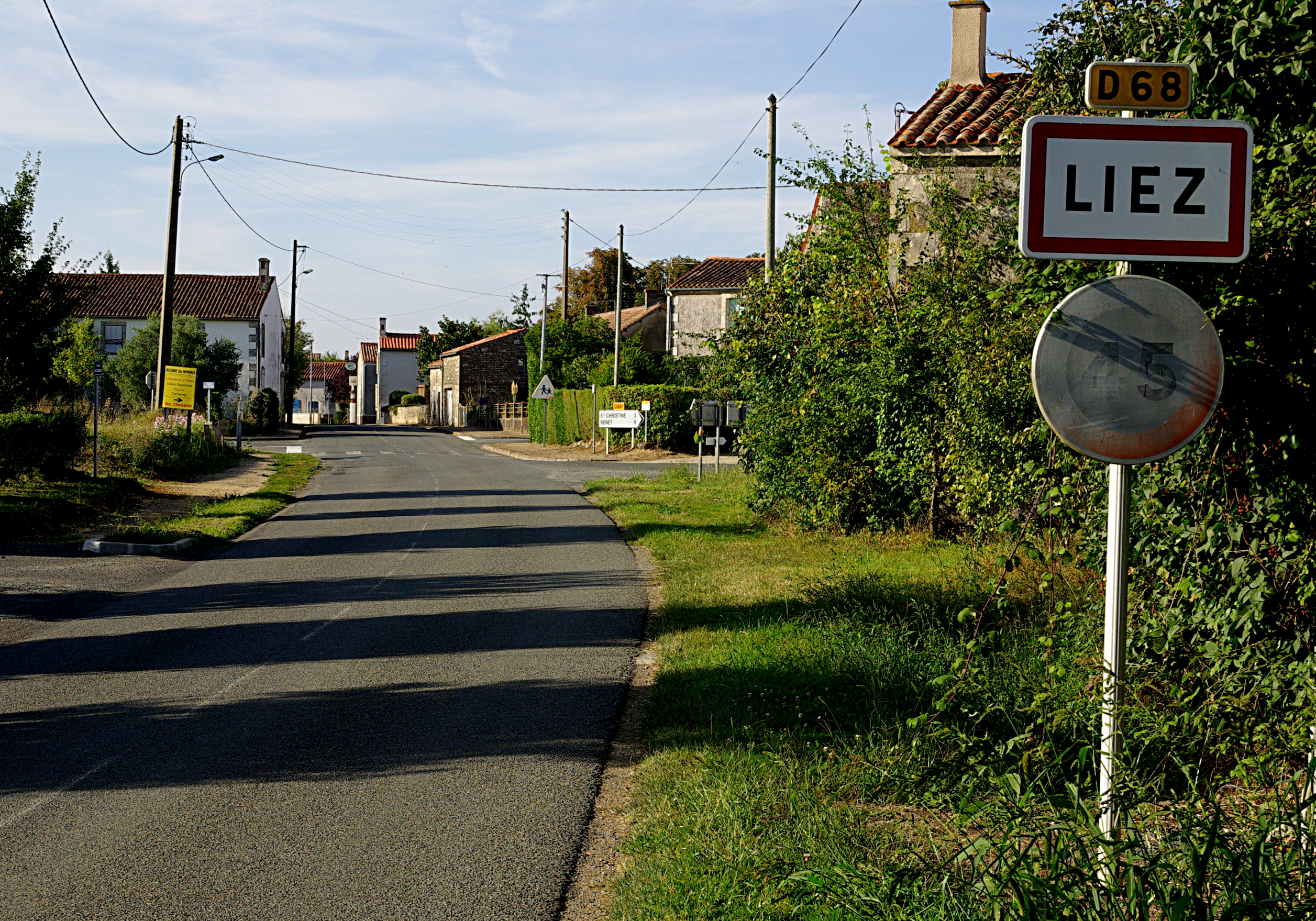 The Liez village in Vendée.